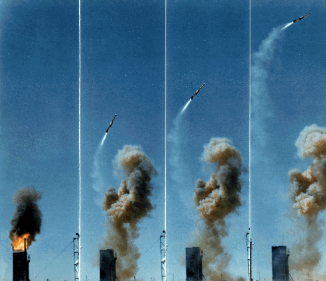 Launch of a U.S. Navy RUM-139 VL-ASROC at the Naval Air Weapons Station China Lake on 28 July 1984.